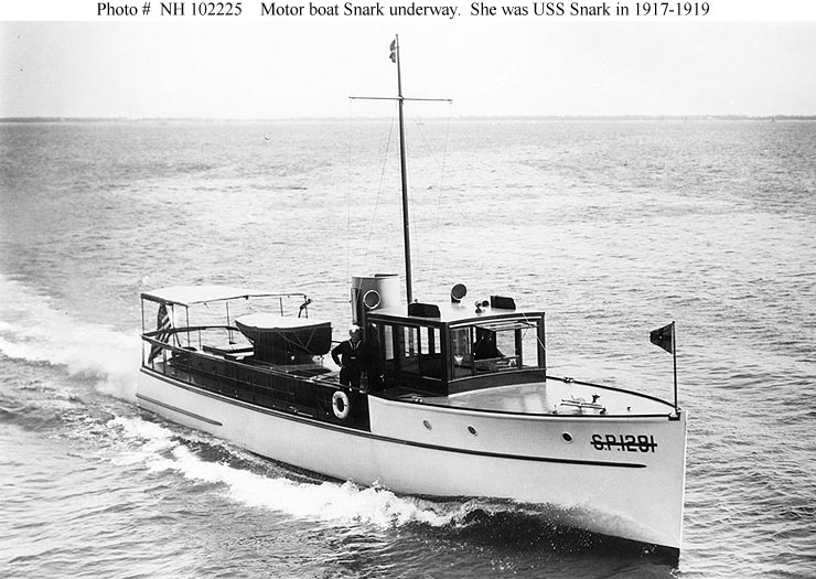 The private motorboat Snark in private use sometime after her United States Navy service as the patrol vessel . In commemoration of her World War I U.S. Navy service, her section patrol number is painted on her bow. Her pilothouse has been enlarged since her Navy service.